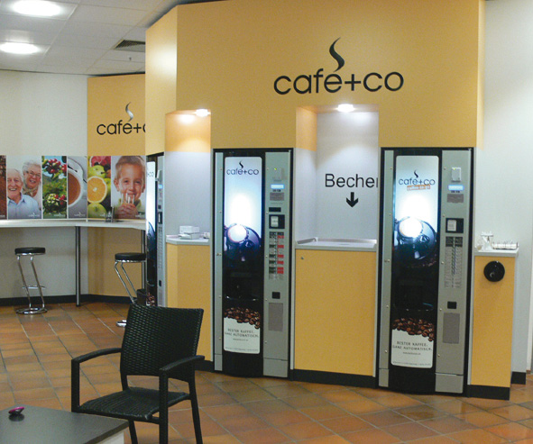 café+co , Klinikum Ingolstadt, Deutschland